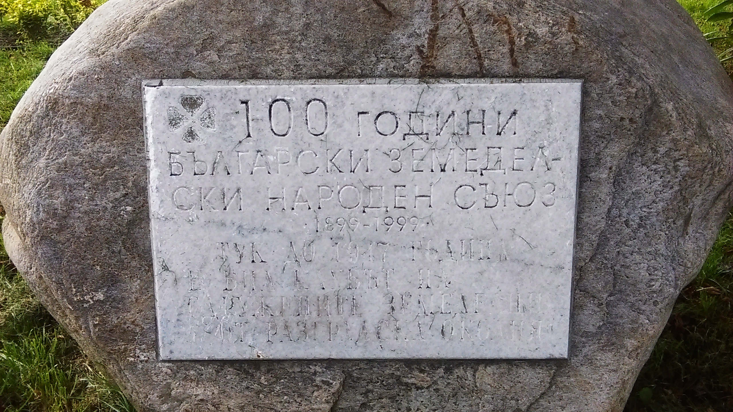 A memorial of the first club of Bulgarian Agrarian National Union near Ibrahim Pasha Mosque in Razgrad